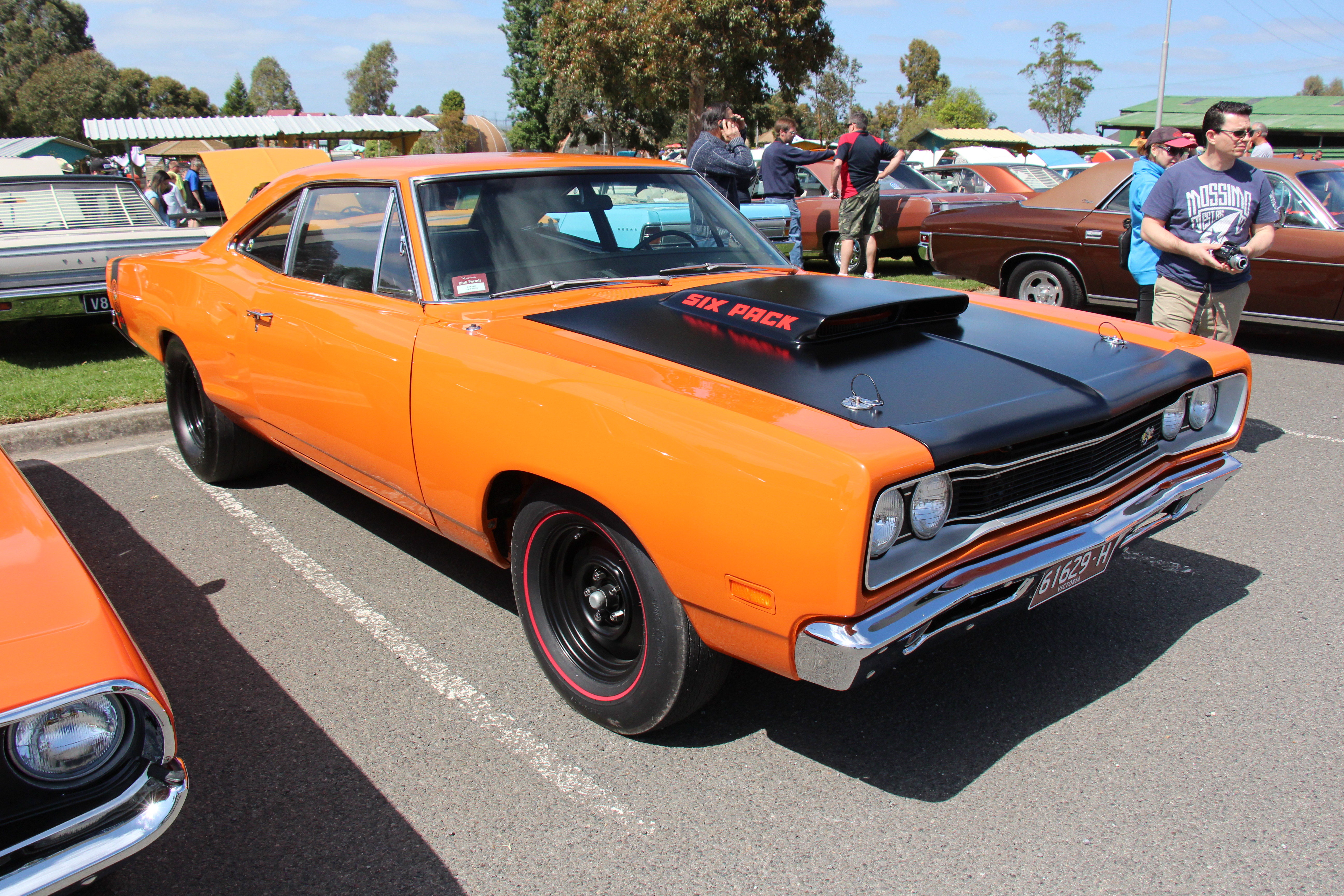 The Dodge Super Bee, Dodges answer to Plymouths Road Runner, were available from 1968-71,aimed at the younger market, they were based on the Coronet, but only available in 2 door, they were cheap with basic trim but big on horsepower. They got Bumble Bee tail stripe and diecast chrome plated Bumble Bee medallions in the grille and on the trunk lid. In mid-1969, the A12 package was introduced on the Super Bee. It included a 390 hp 440 with three 2bbl Holley carburetors on an aluminum intake manifold, a black fiberglass lift-off hood secured with metal pins, heavy-duty suspension and steel wheels with no hubcaps or wheel covers. The hood had an integrated forward-facing scoop which sealed to the air cleaner assembly. Six Pack being the name used for the 6-bbl induction setup when installed on a Dodge (Plymouth went with 440 6bbl on the A12 Road Runners).